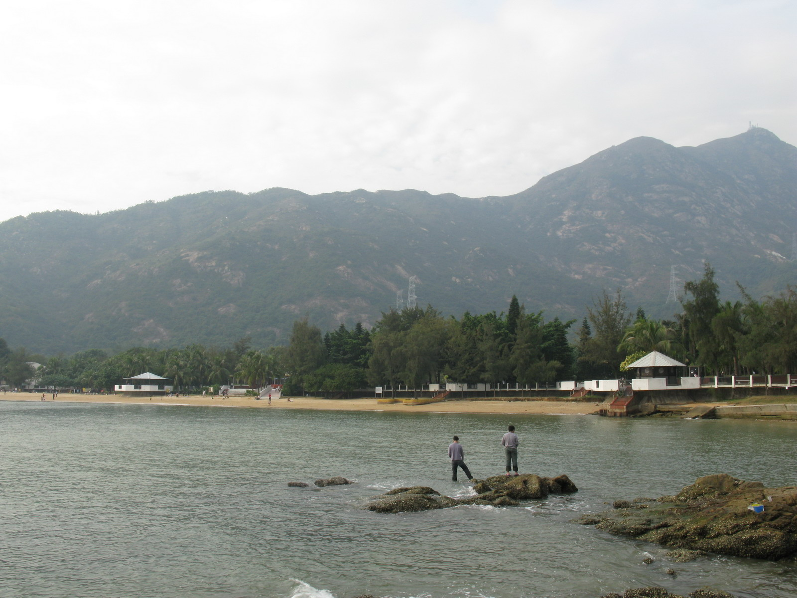 Butterfly Beach